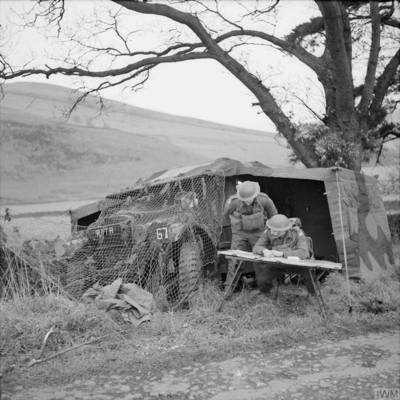 The British Army in the United Kingdom 1939-45 Officers of the Leicestershire Regiment study their maps by the side of a camouflaged 15-cwt command vehicle, 46th (North Midland) Division, Scotland, 5 December 1940.